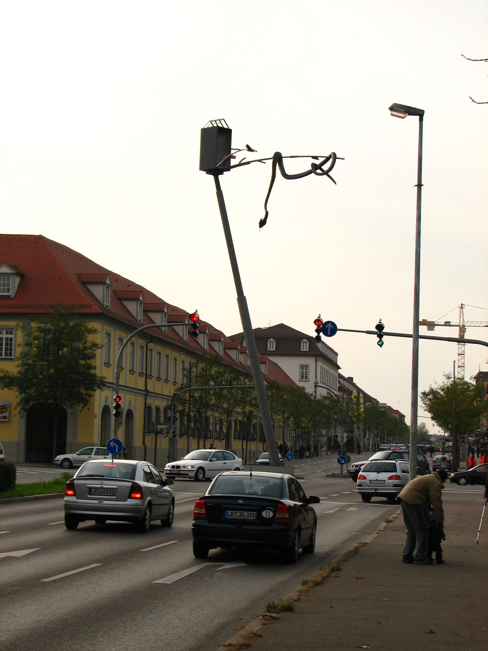 Ludwigsburg, Baden-Württemberg, Germany